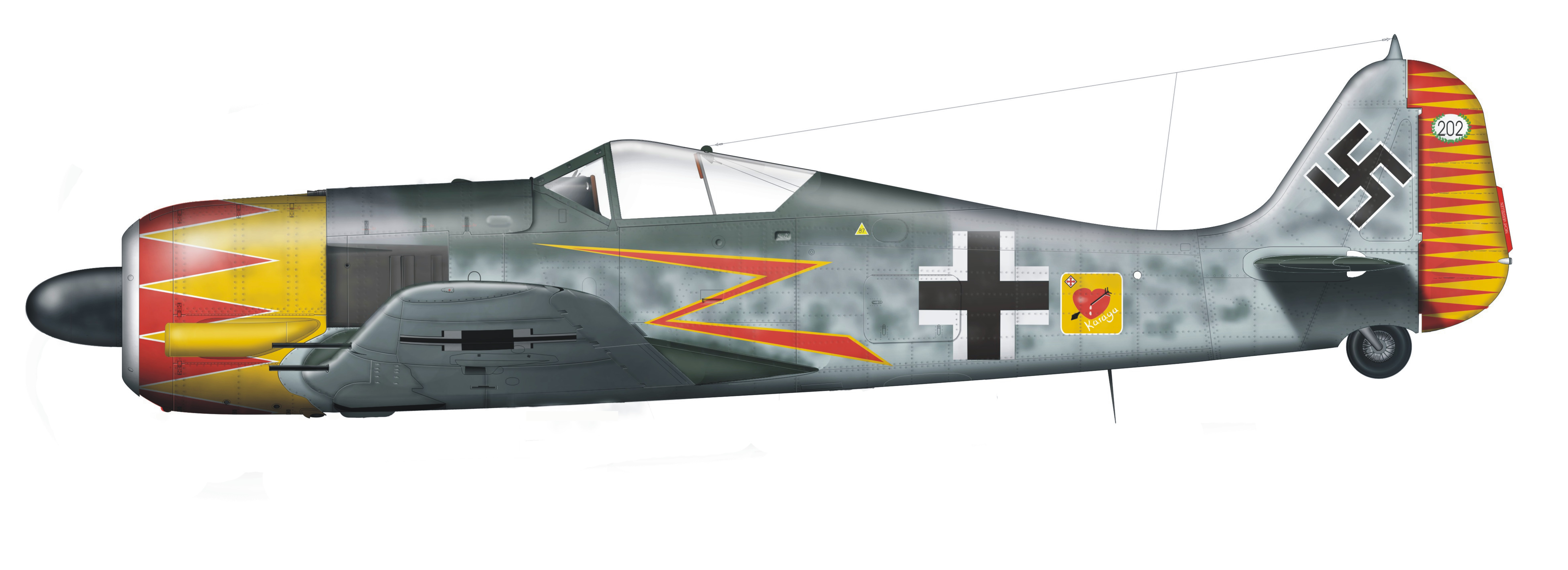 Focke Wulf Fw 190 A5/U7 with external ducts flown by Major Hermann Graf at Jagdergänzungsgruppe Süd, Southern France 1943